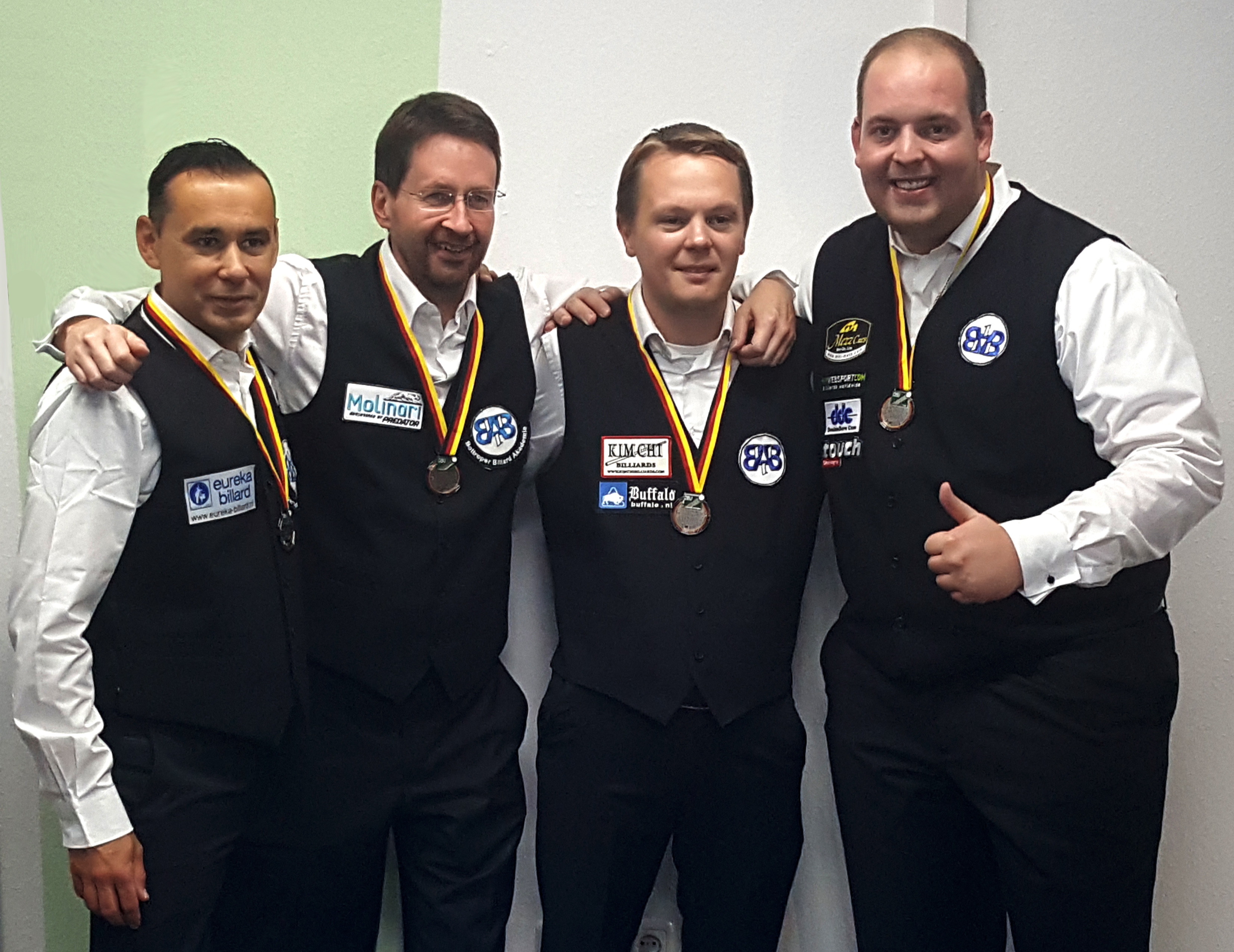 see file name and cat